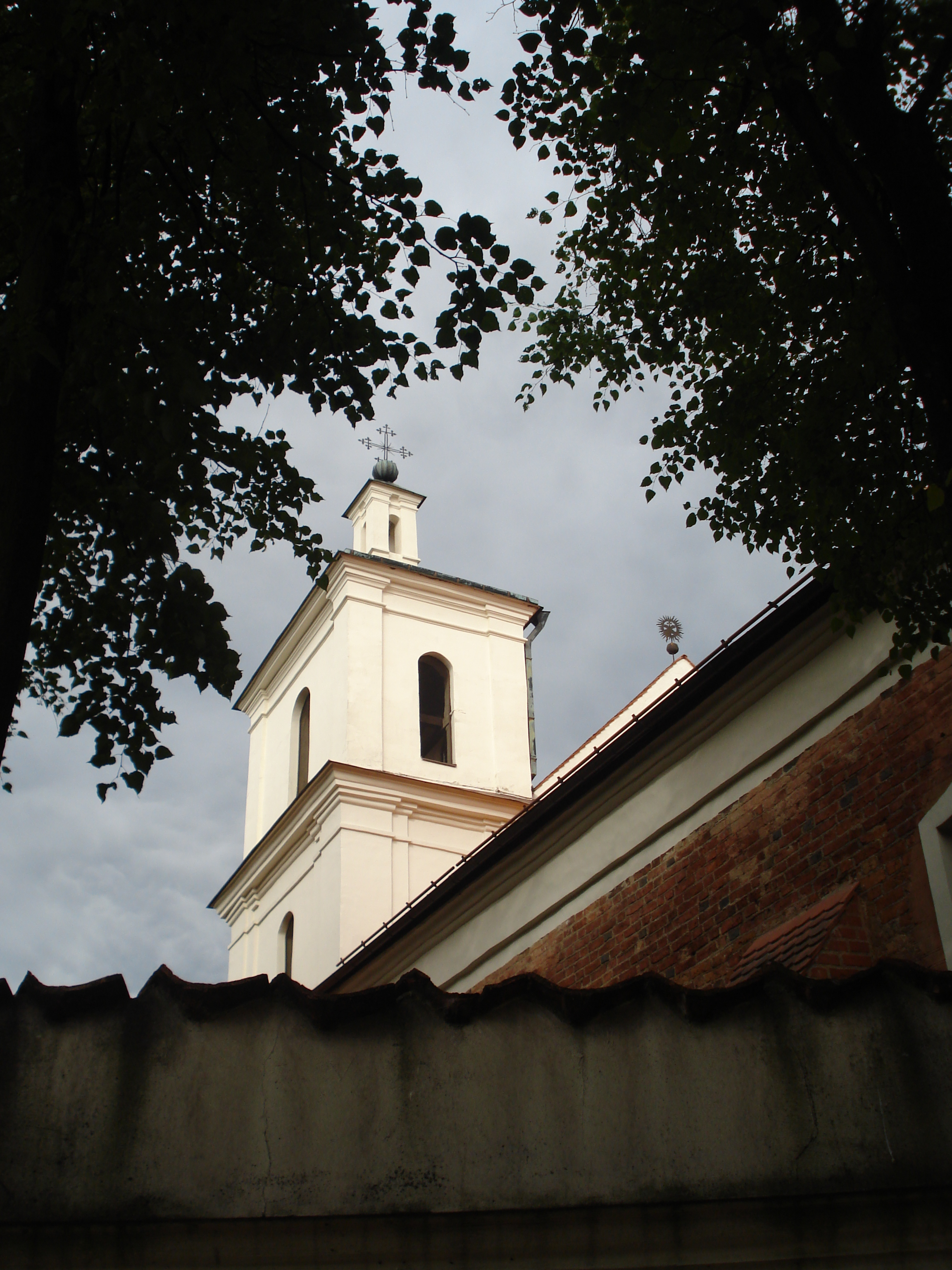 The Belltower of the Church of St. Nicholas in Vilnius (Šv. Mikalojaus bažnyčia). Šv. Mikalojaus g. 4